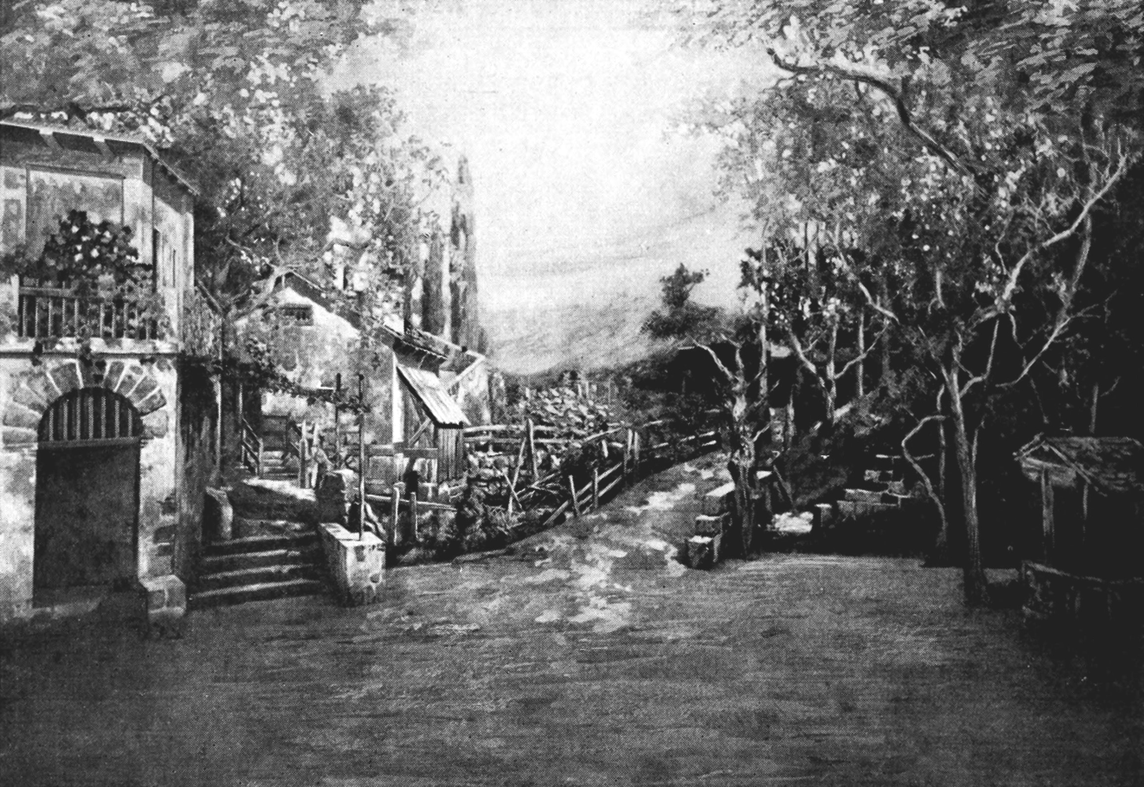 Auber - Fra Diavolo, act III Title: The Victrola book of the opera : stories of one hundred and twenty operas with seven-hundred illustrations and descriptions of twelve-hundred Victor opera records Year: 1917 (1910s) Authors: Victor Talking Machine Company Rous, Samuel Holland Subjects: Operas Publisher: Camden, N.J. : Victor Talking Machine Co. Text Appearing Before Image: ing dead, there seems to be no reasonableexcuse for keeping it up any longer! DOUBLE-FACED FORZA DEL DESTINO RECORDS (Overture By Arthur Pryors Band;352l5 12_incn $1 25 \ Orpheus in Hades Overture (Offenbach) By Arthur Pryors Band)Overture, Part I and Part II By La Scala Orchestra 68009 12-inch, 1.25 Le minaccie, i fieri accenti (Let Your Menaces) By Carlo Barrera and Giuseppe Maggi (In Italian) \a.Q2\3 12 inch 1 25 Solenne in questora (Swear in This Hour) By Carlo ; Barrera, Tenor, and Giuseppe Maggi, Baritone (In Italian) J INon imprecare, umiliati By Ida Giacomelli, Soprano ; 1 Gino Martinez-Patti and Cesare Preve (In Italian) f68026 12-inch, 1.25 Ballo in Maschera—Ah ! qual soave Giacomelli and Martinez-Patti)f Solenne in questora By Colazza and Ernesto Caronna (Italian) \ ,«. _ . . n-inch 75 I Faust—Io voglio il piacer By Pini-Corsi and Sillich (Italian)) (Solenne in questora By Vessellas Italian Band\~--12 12-inch 1 25 \ Mefistofele Selection By Vessella s Italian Band) 1G7 Text Appearing After Image: FRA DIAVOLO—ACT III